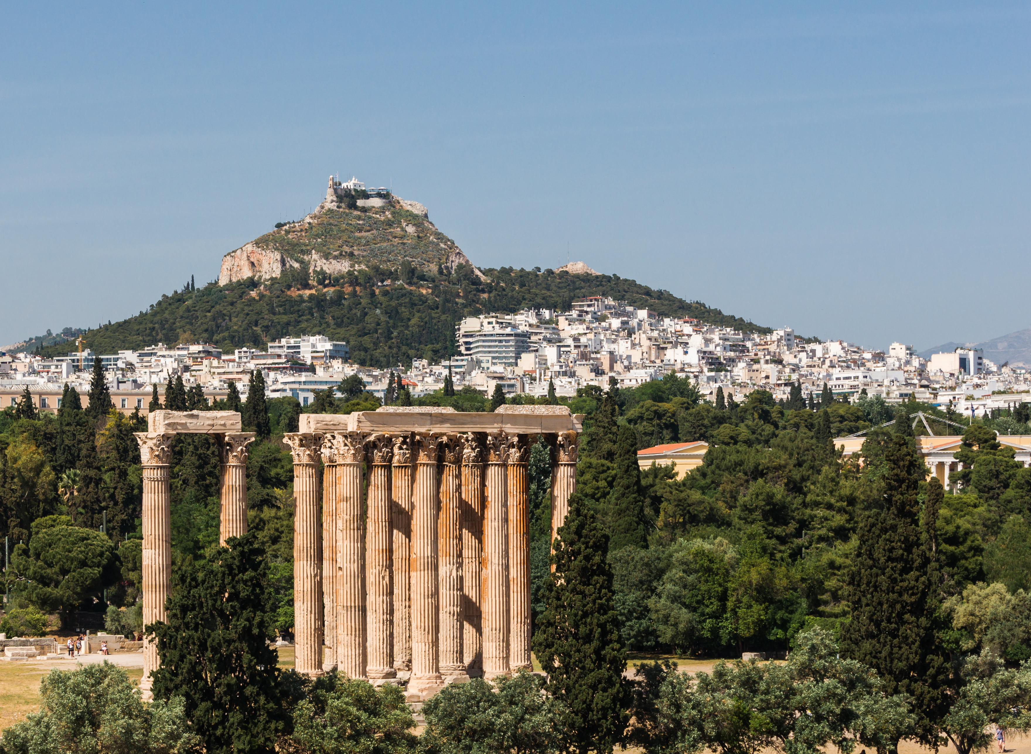 From the Temple of Olympian Zeus to the Lycabettus hill, as seen from the roof terrace of the "Royal Olympic" hotel, Athens, Greece.